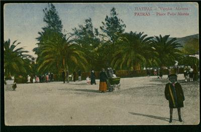 Psila Alonia square in Patras in an old postcard